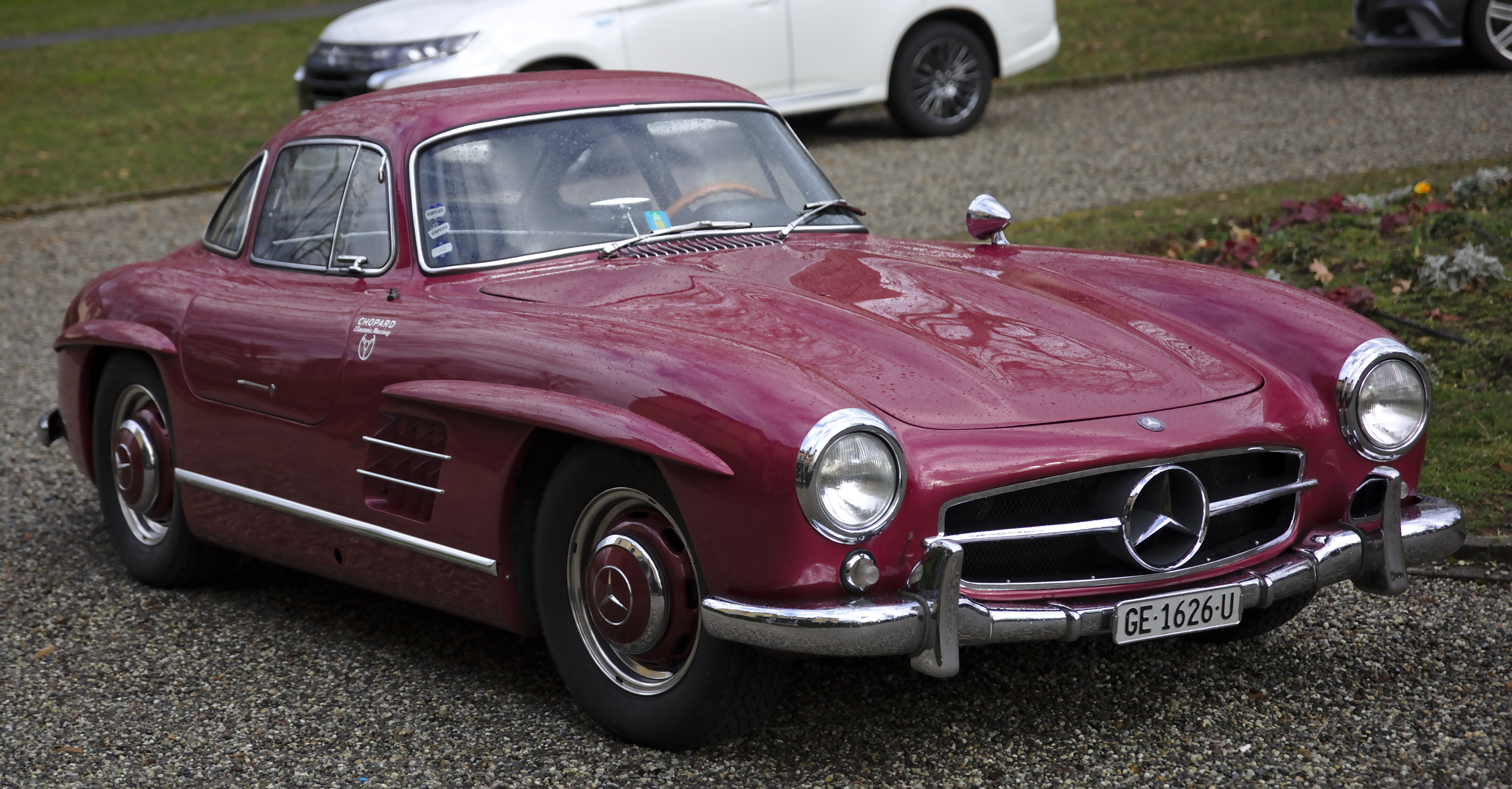 Mercedes-Benz W198 300 SL Gullwing at Geneva Motor Show 2019